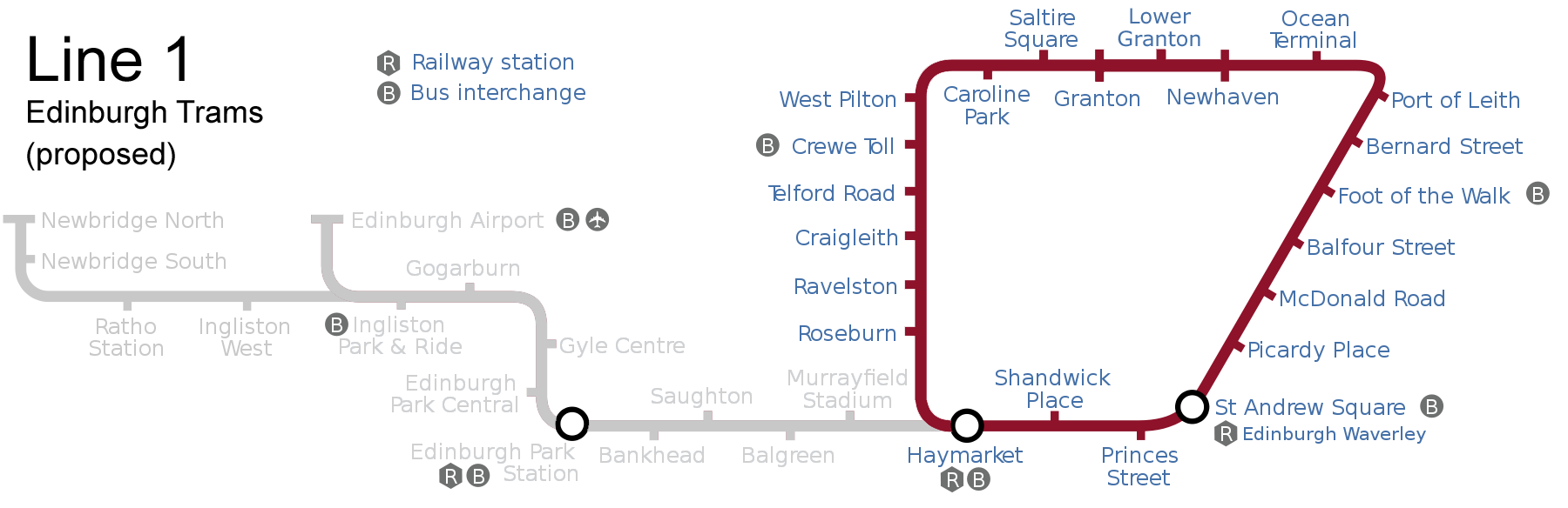 A map showing the extent of the track and stops of the Edinburgh Trams system which actually gained parliamentary approval in 2006 (not shown is the track needed for Line 3, which was also proposed but not approved). Highlighted here is 'Line 2', while in the background is 'Line 1', which would have operated as a linear service, running from either Newbridge North or the airport, to st Andrew Square. After various revisions and cancellations, the only part of the track that was eventually built was the section from the airport to York Place (between St Andrew Square and Picardy Place), which runs as a single line (opened in 2014).